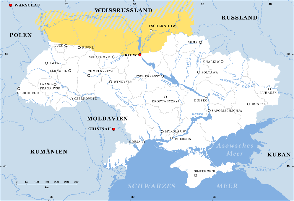 Polesia (marked in yellow) on a map of Ukraine